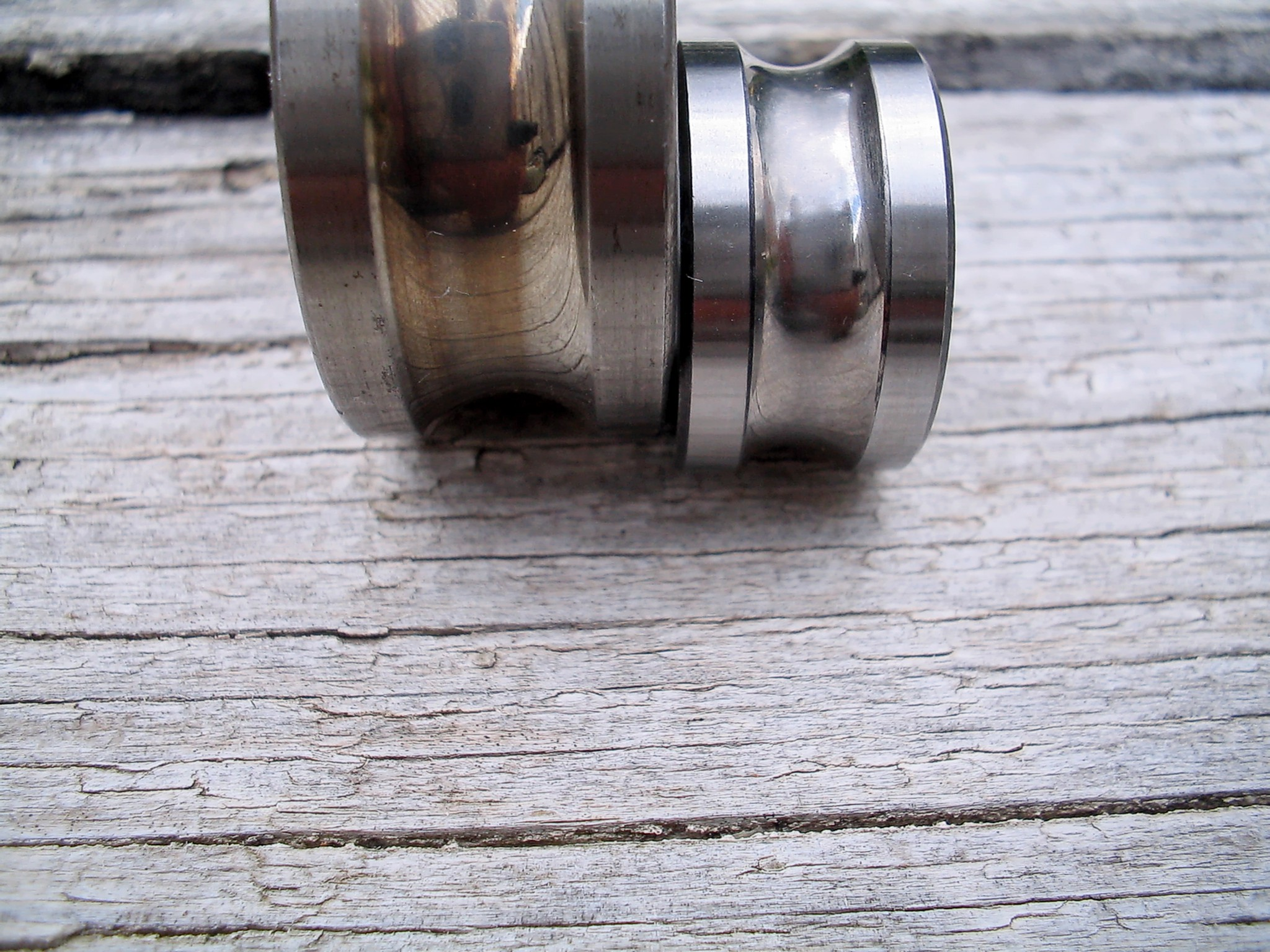 Two inner rings of two ball bearings, on the left you can see a thermal overload, left an important wear